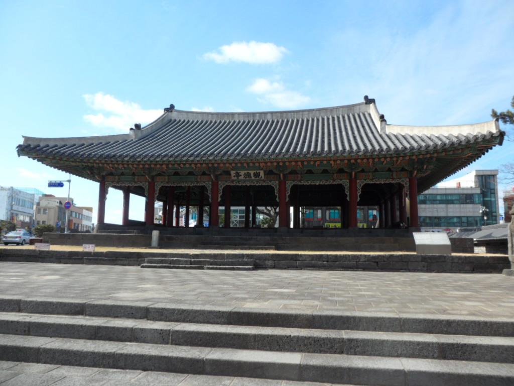 Gwandeokjeong Pavilion located in Jeju, South Korea.